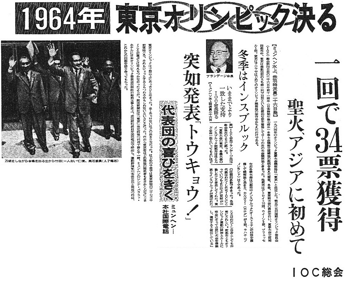 Yomiuri Shimbun newspaper clipping (27 May 1959 issue)